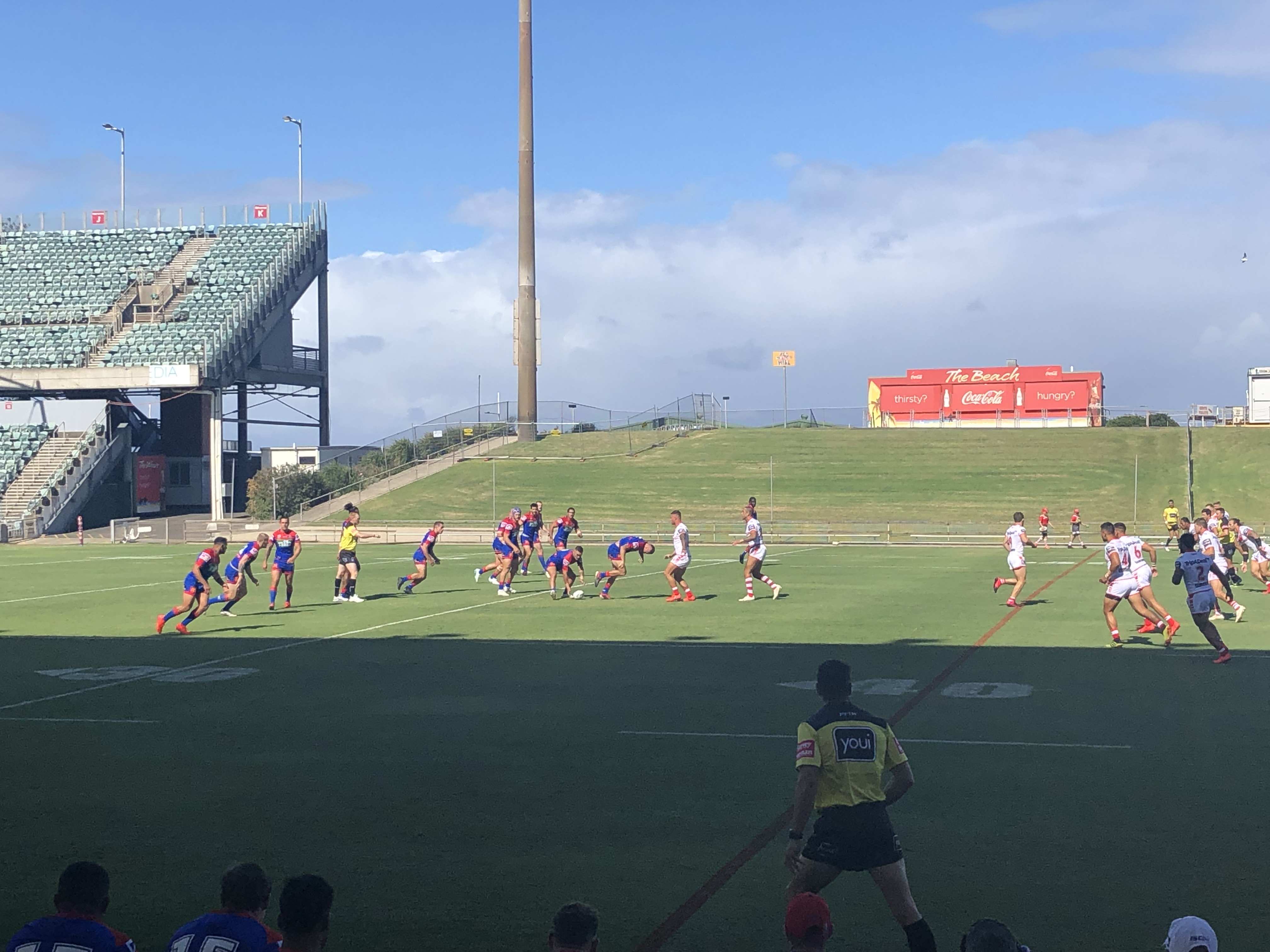 A trial match between the St George Illawarra Dragons and Newcastle Knights taking place at WIN Stadium in February 2019.